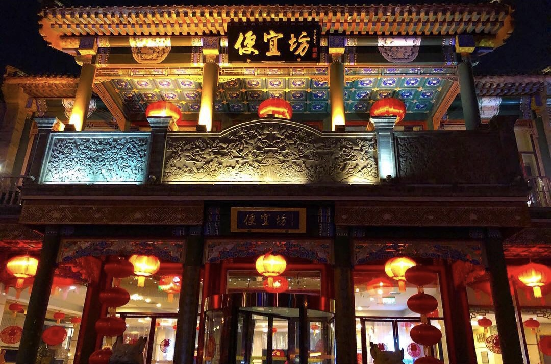 Bianyifang Roast Duck (QianMen Xian YuKou).